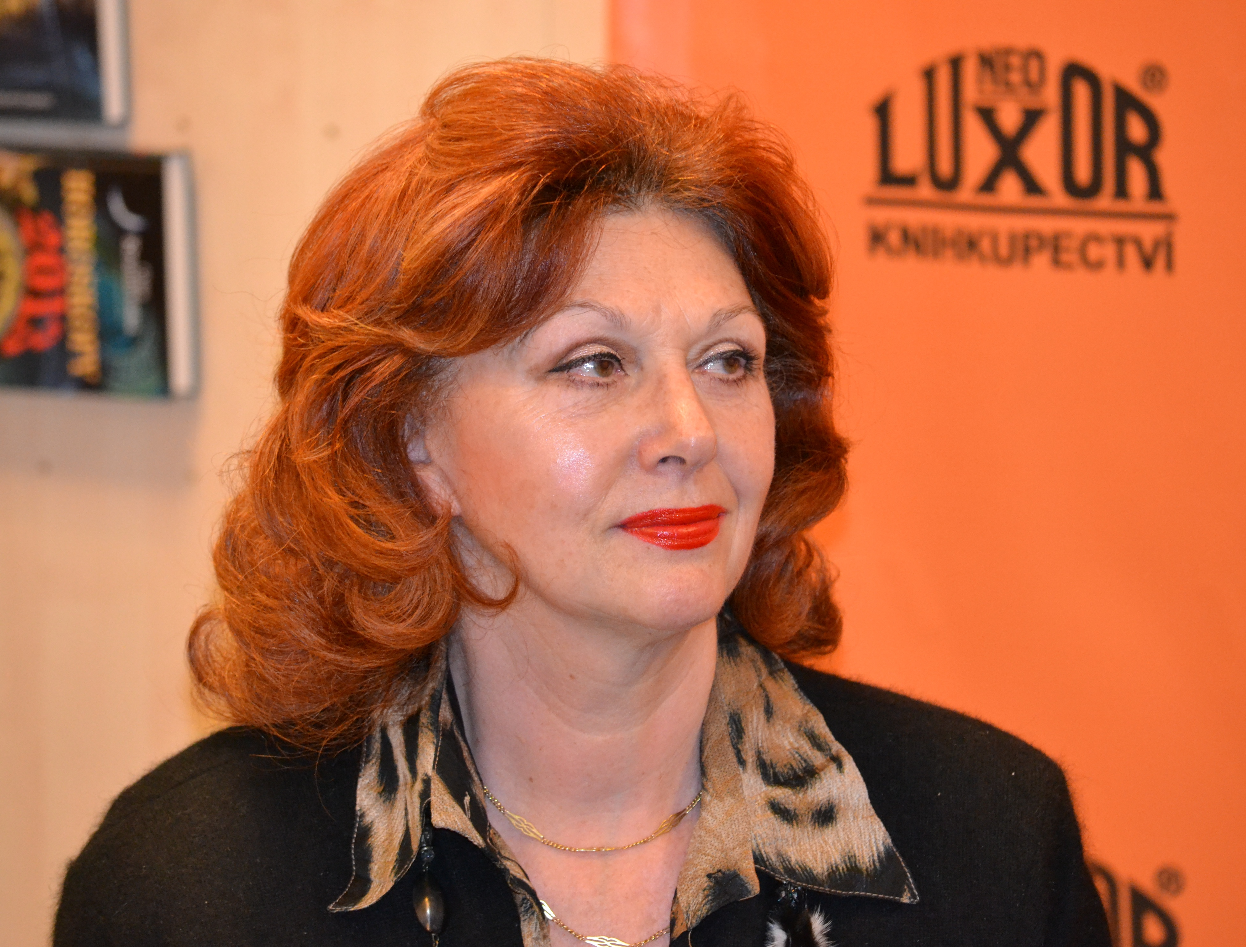 Saskia Burešová, Czech TV presenter